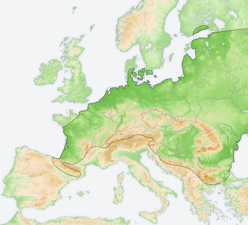 Distribution of Map butterfly Araschnia levana in Europe according to Higgins & Riley 1978, Tolman & Lewington 1998, Reinhardt 1984